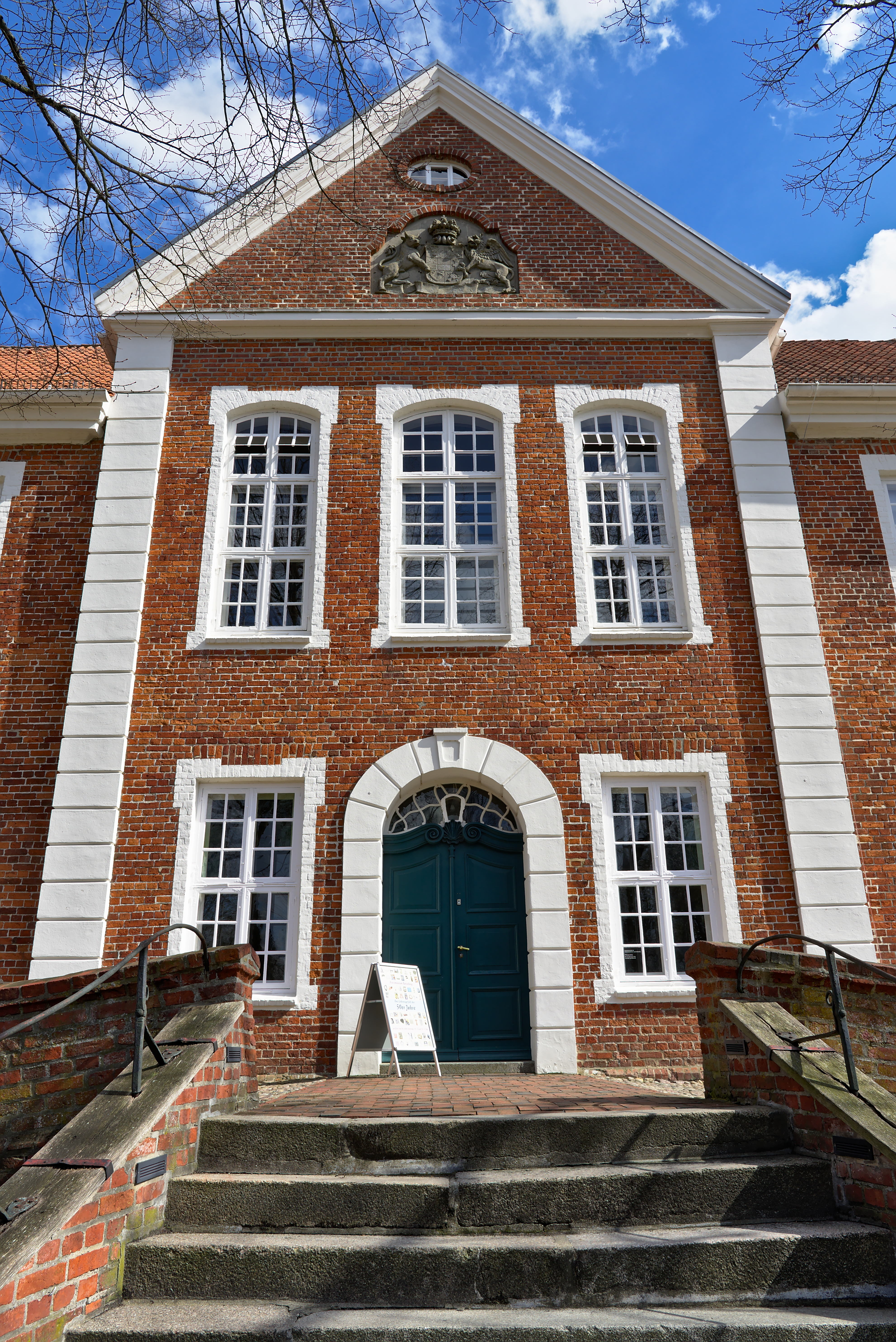 Avant-corps at the manor house of the Dukes of Mecklenburg, Ratzeburg.